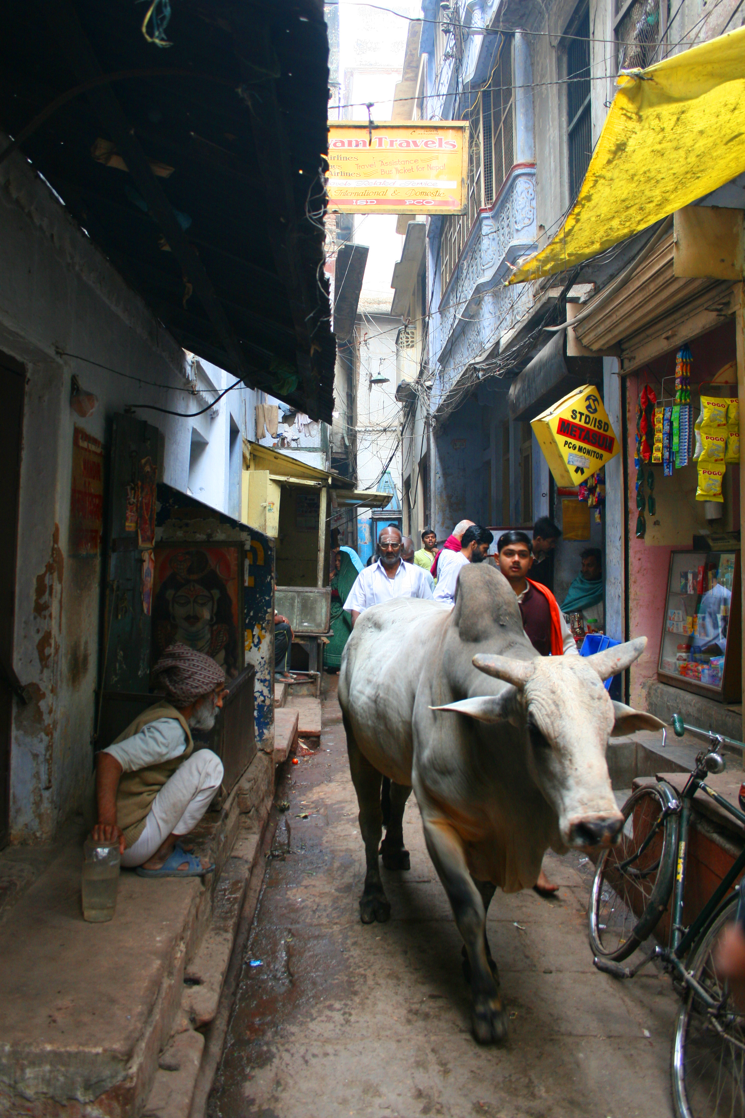 A bull walking through the bylanes of Varanasi.